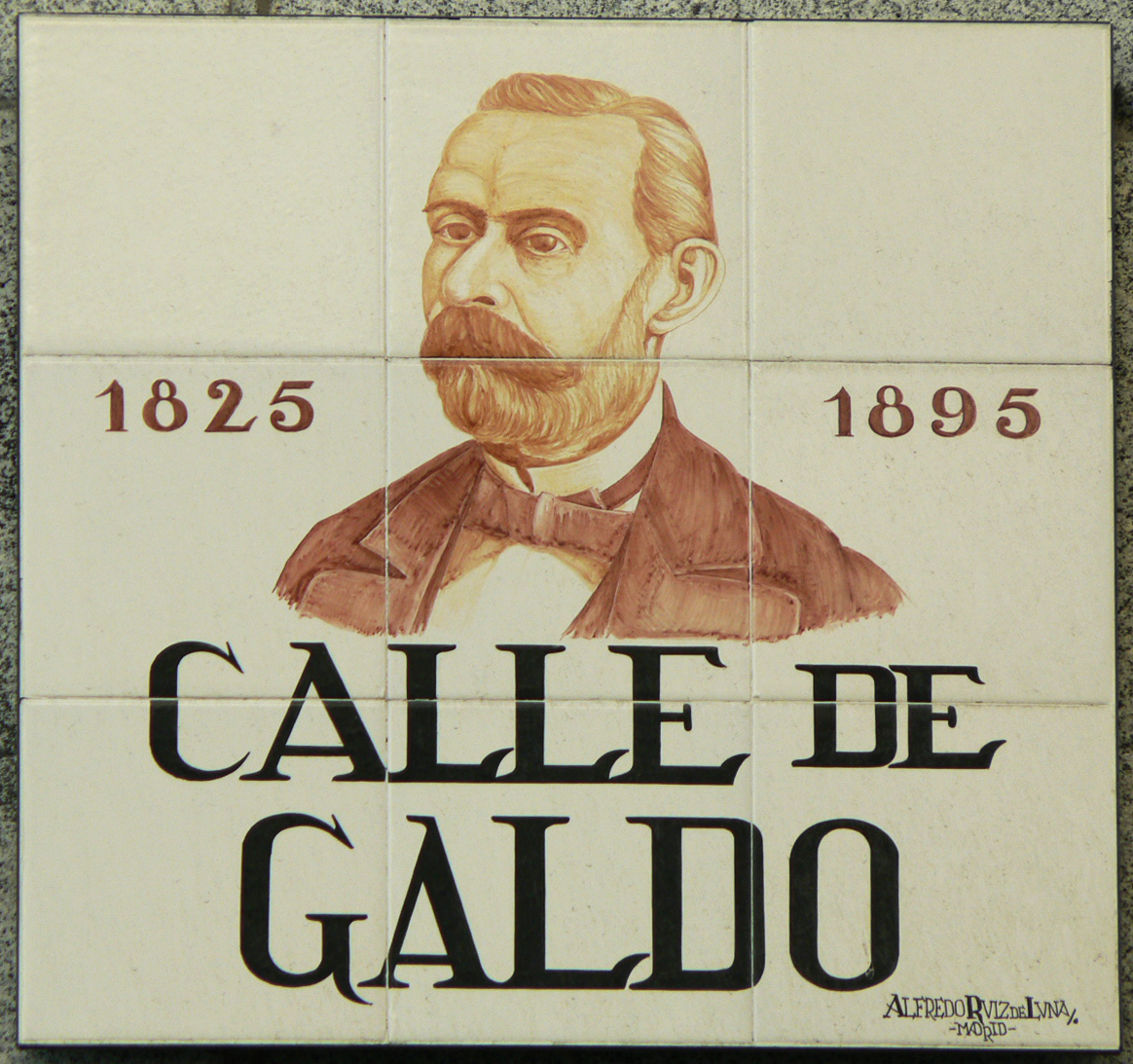 Sign of Calle de Galdo (street, Centro district) in Madrid (Spain).